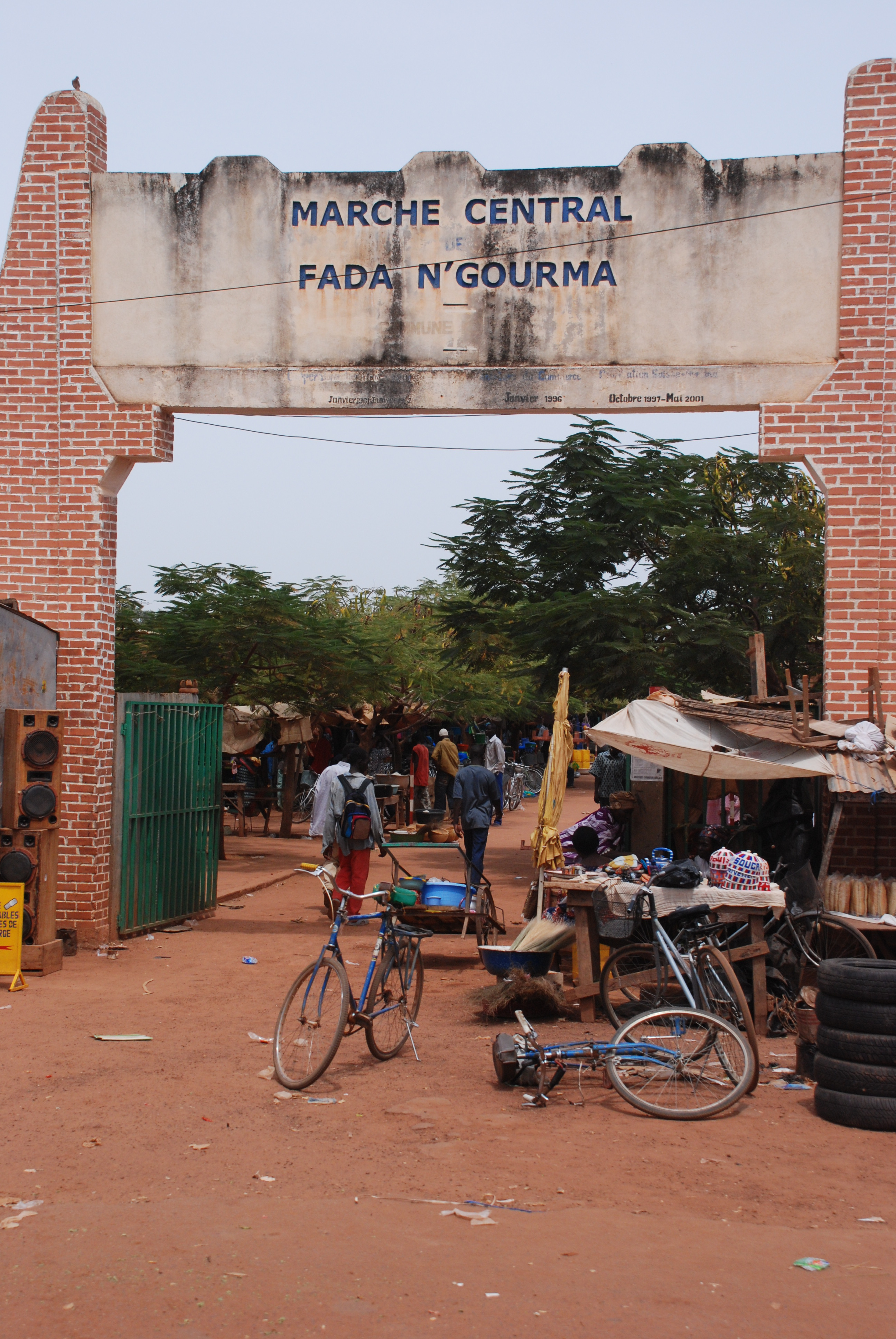 Main market of Fada N'Gourma; city in South-East Burkina Faso (West Africa)